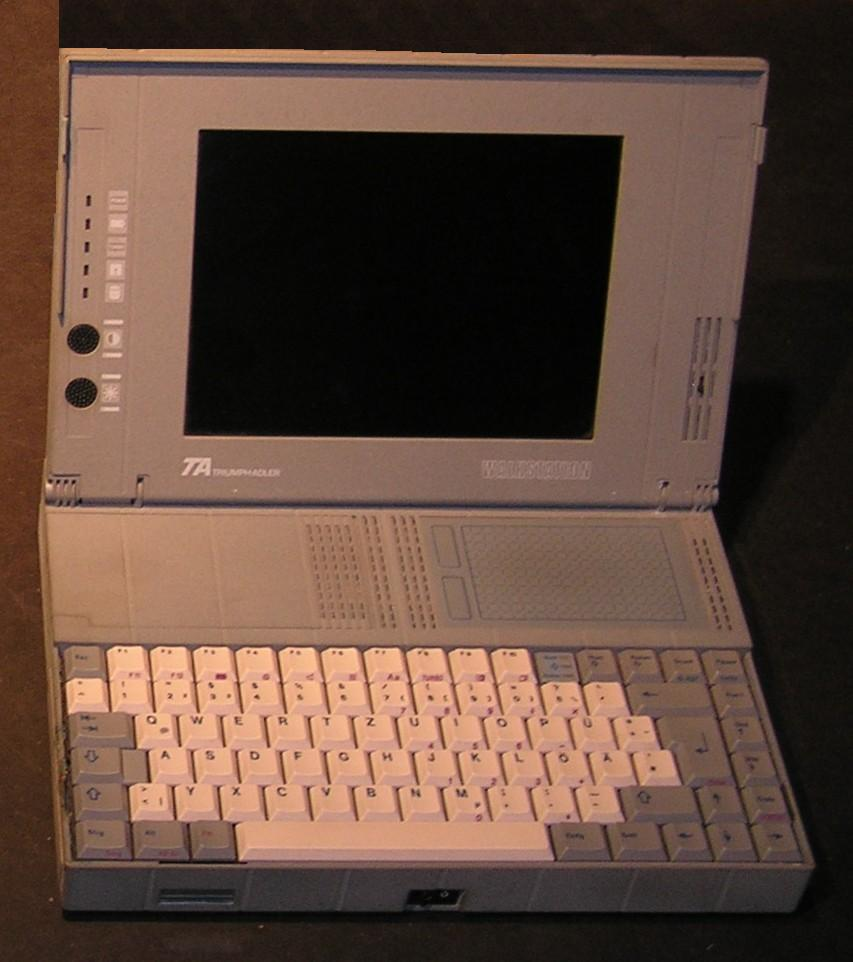 Laptop Triumph-Adler Walkstation (1991) 386 CPU